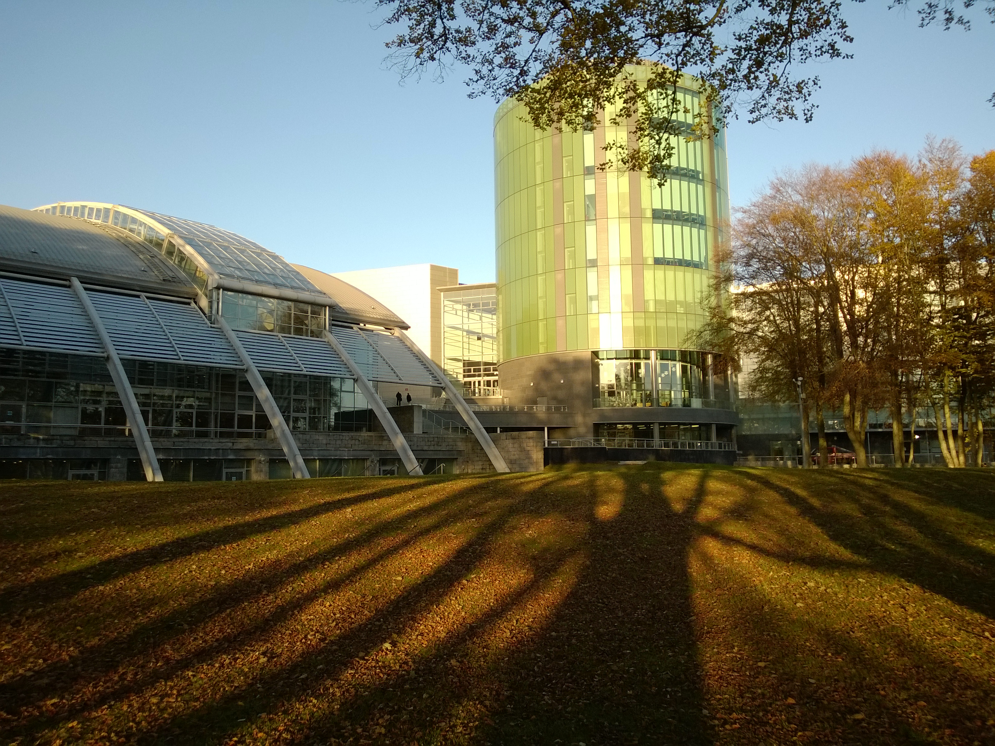 Autumn leaves at Garthdee campus of The Robert Gordon University, Aberdeen. Building at left is Faculty of Health and Social Care, at centre is University Library (tower) and Riverside East building.